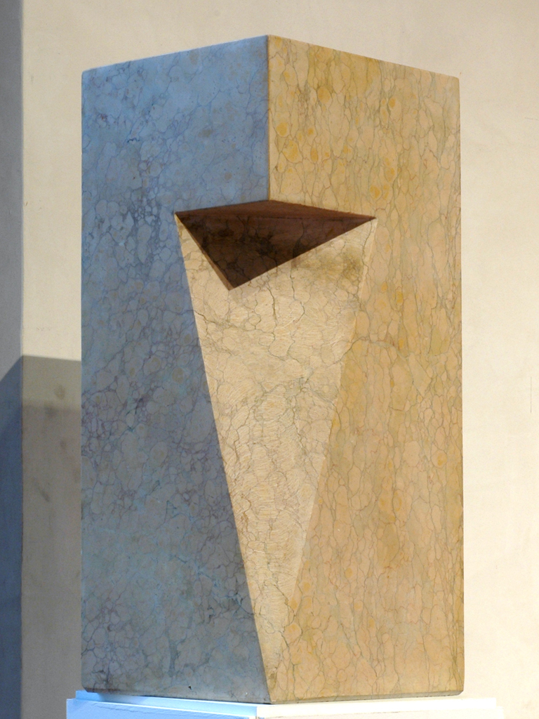 Sculpture by Jan Koblasa, Head, stone (1987)